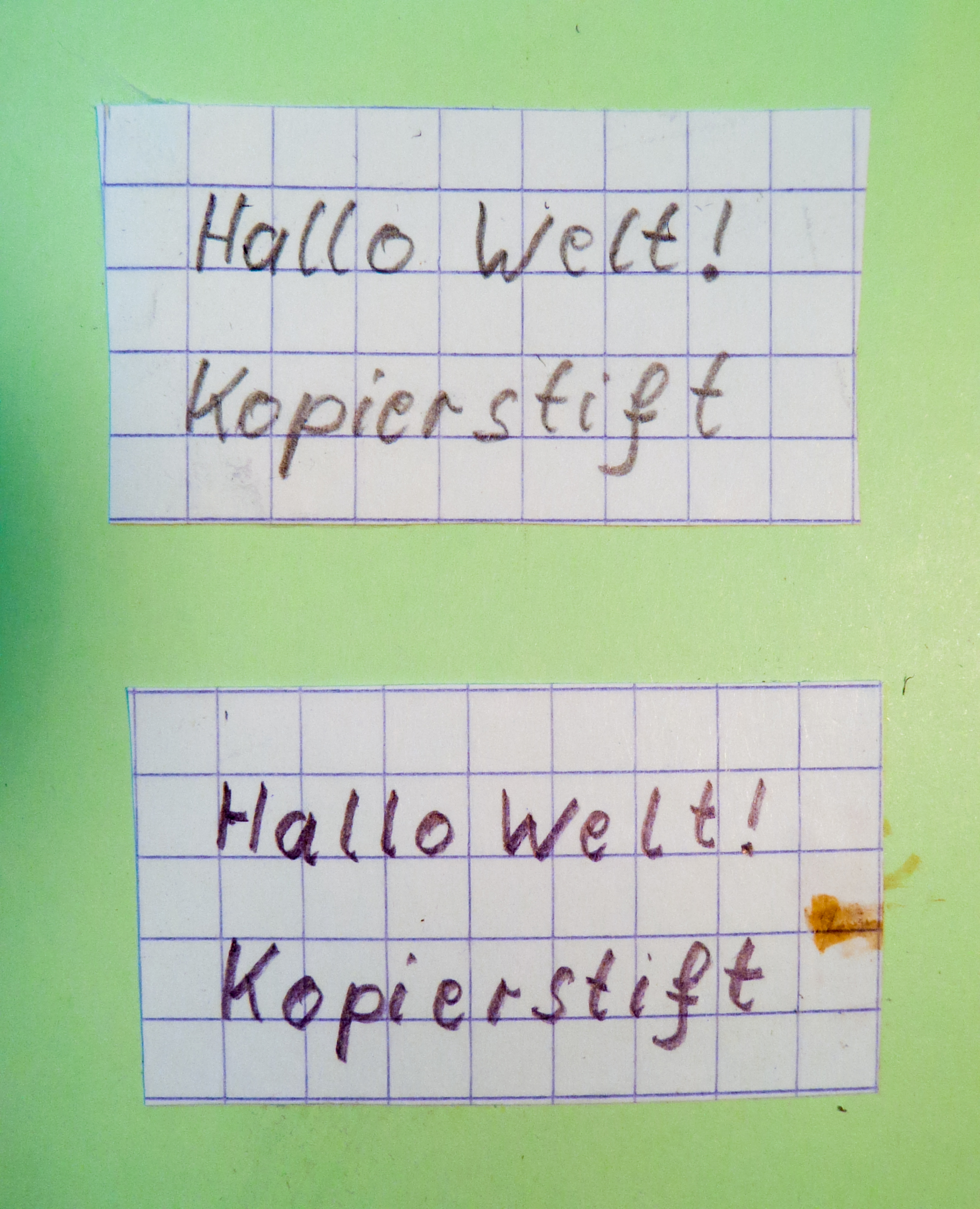 Text written with a copying pencil, dry and humid.